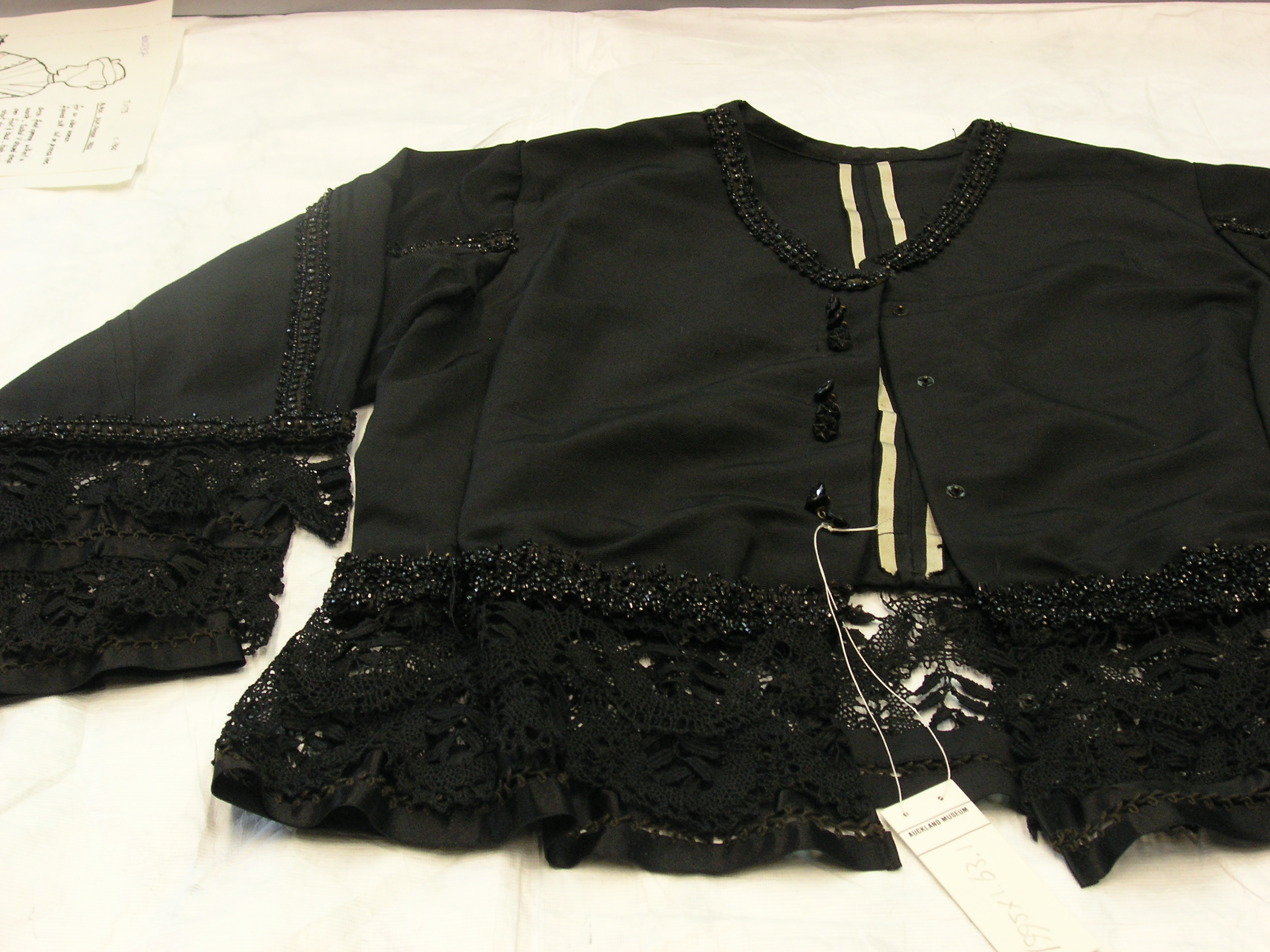 Woman's outfit comprising bodice (.1) and skirt (.2). Black bombazine with lace edging and beading. Collarless jacket.